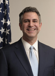 Francisco Sanchez, Under Secretary of Commerce for International Trade at the United States' Department of Commerce